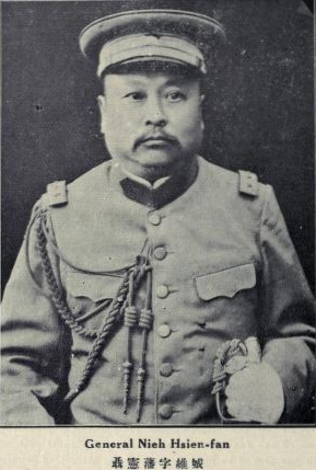 Nie Xianfan, Weicheng (1880 - 1933)